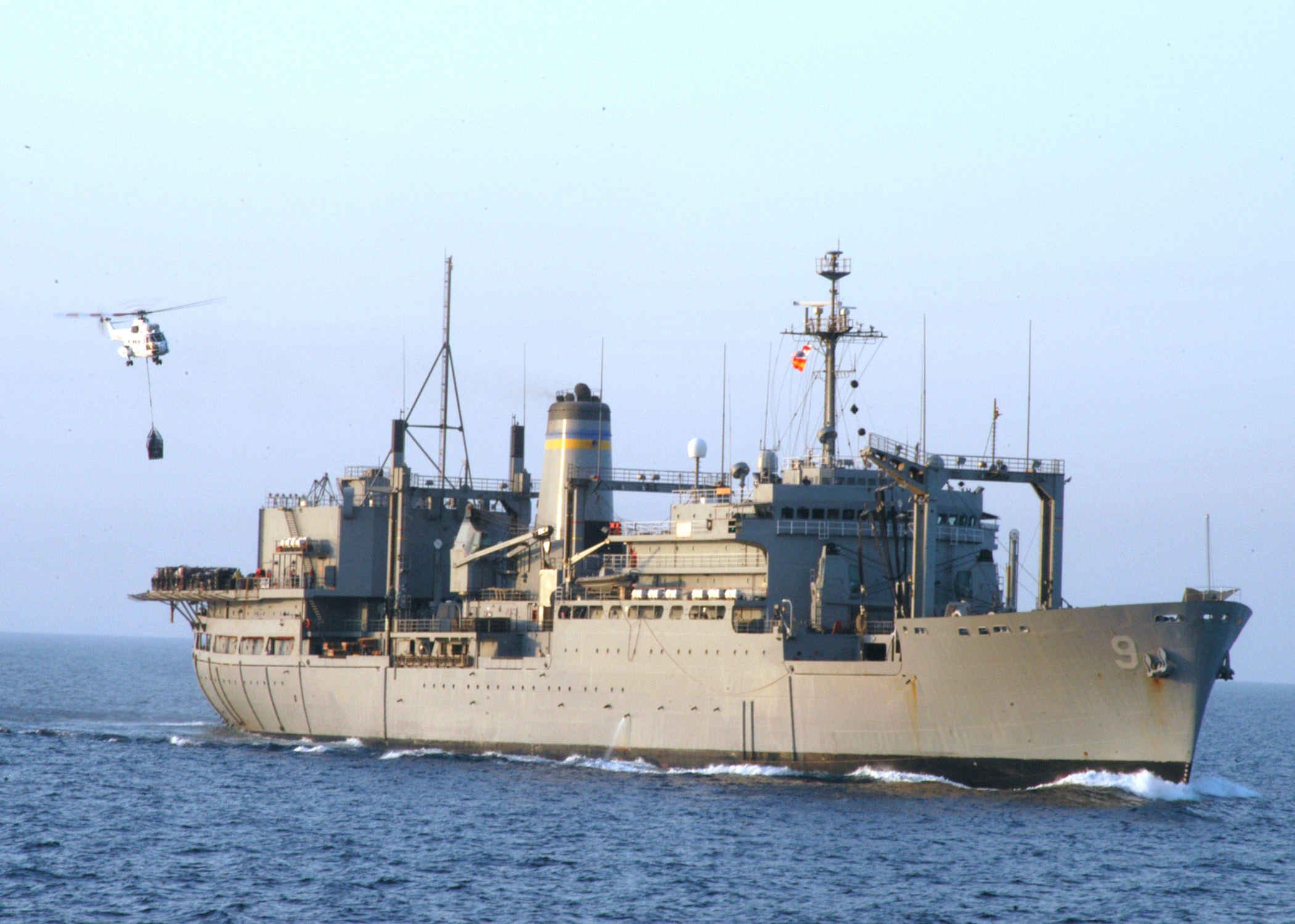 Arabian Gulf (Aug. 26, 2004) - Military Sealift Command (MSC) combat stores ship USNS Spica (T-AFS 9) conducts a vertical replenishment at sea with the aircraft carrier USS John F. Kennedy (CV 67). Kennedy and Carrier Air Wing Seventeen (CVW-17) are operating in the 5TH Fleet area of responsibility, conducting missions in support of Operation Iraqi Freedom (OIF). Units in the Kennedy Carrier Strike Group are working closely with Multi-National Corps-Iraq and Iraqi forces to bring stability to the sovereign government of Iraq. U.S. Navy photo by Photographer’s Mate 2nd Class Regina Wiss (RELEASED)